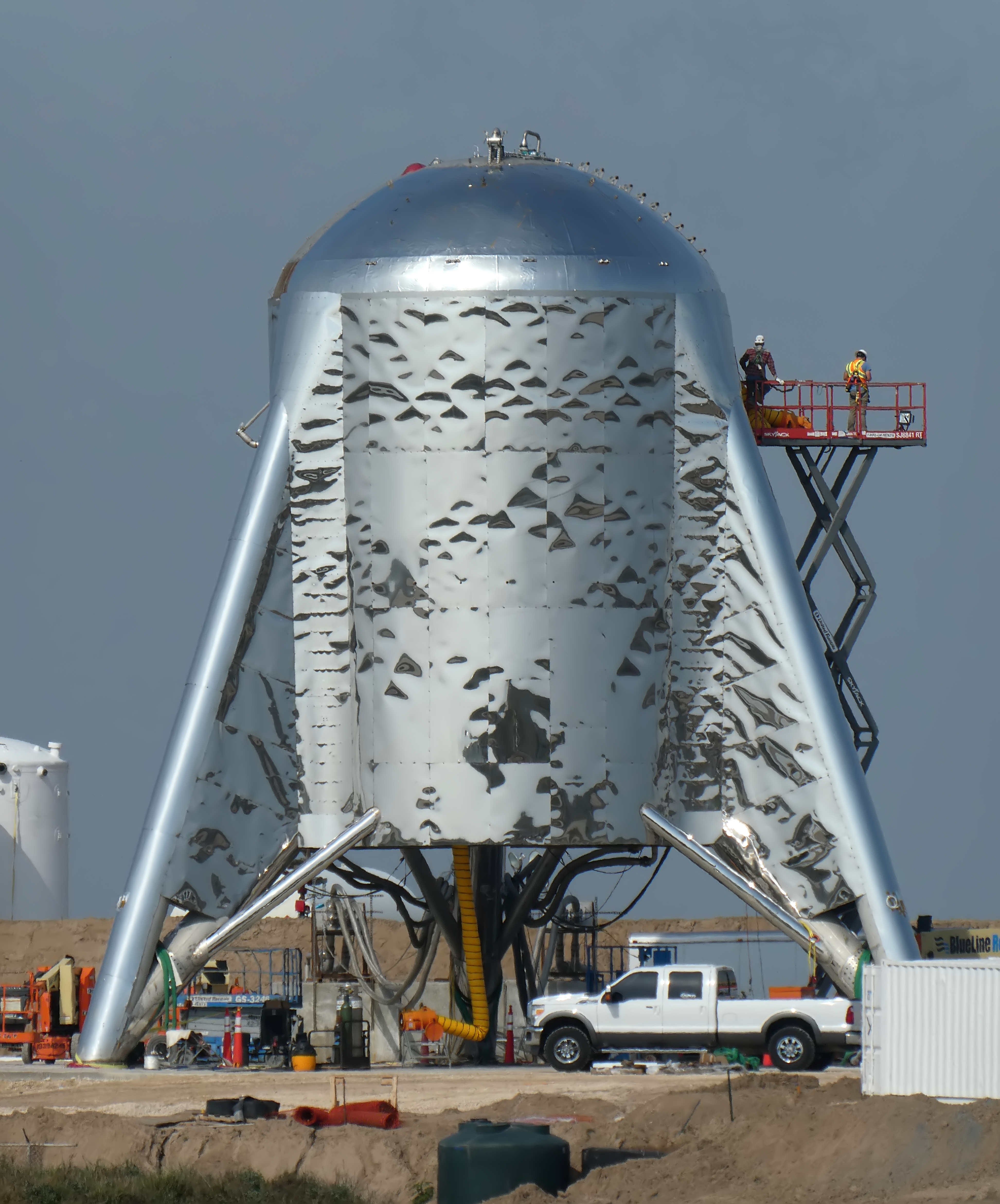 "Starhopper" prototype of SpaceX Starship at SpaceX South Texas Launch Site